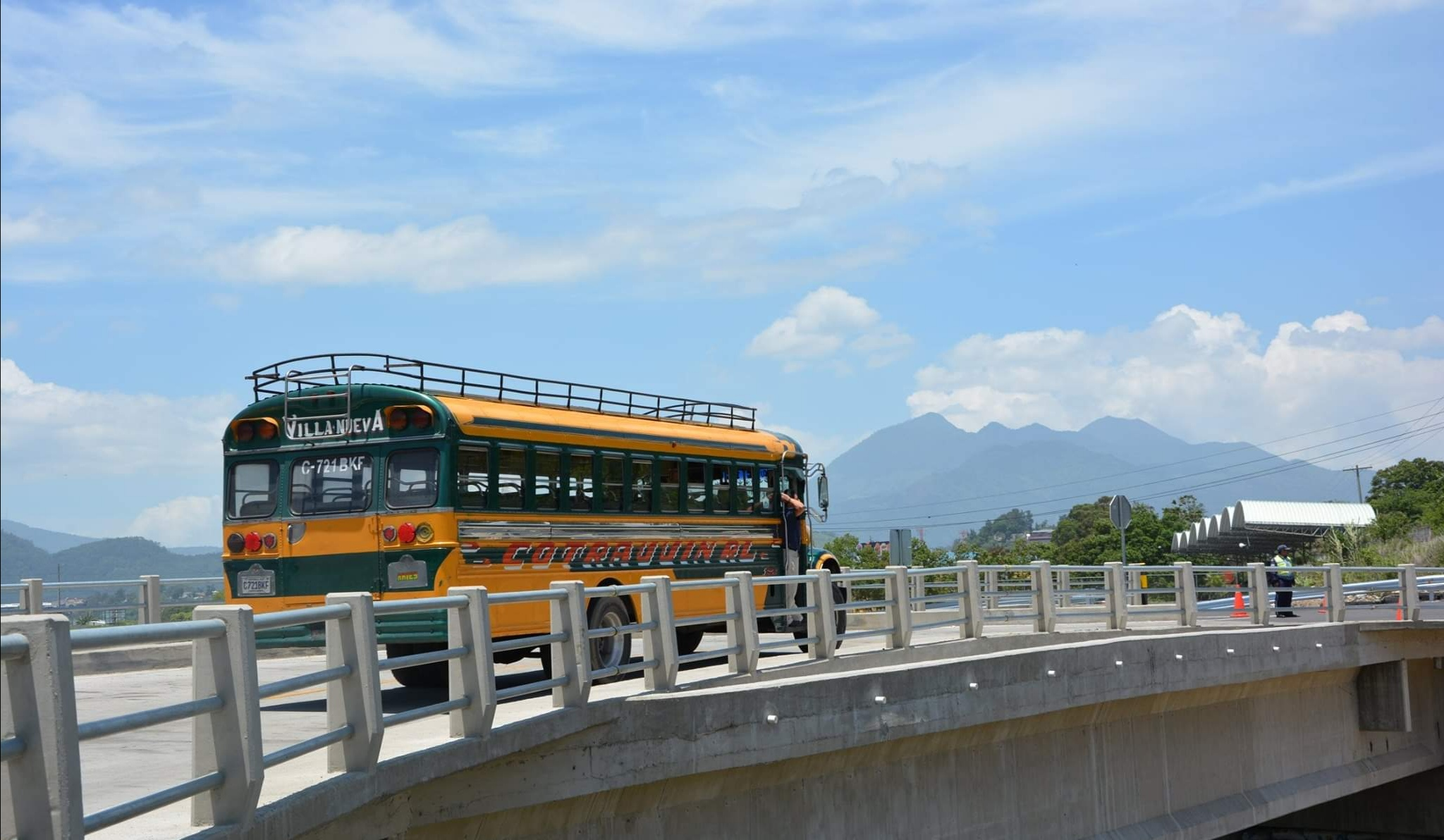 Cootrauvin de Villa Nueva